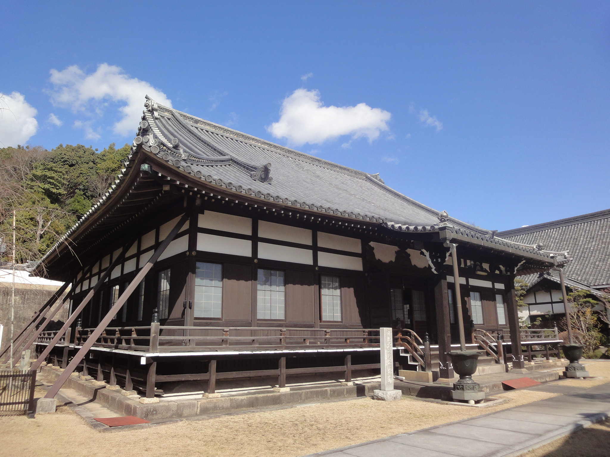 Zuinen-ji Hondo in Okazaki City, Aichi Pref, Japan.